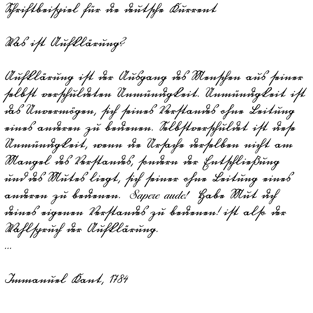 Computer-generated example of a Sütterlin font. Important: Sütterlin is a modernized german Kurrent and not a representation of german Kurrent as it was written in the 18th or 19th century. Using it for a text by Kant is therefore an anachronism.